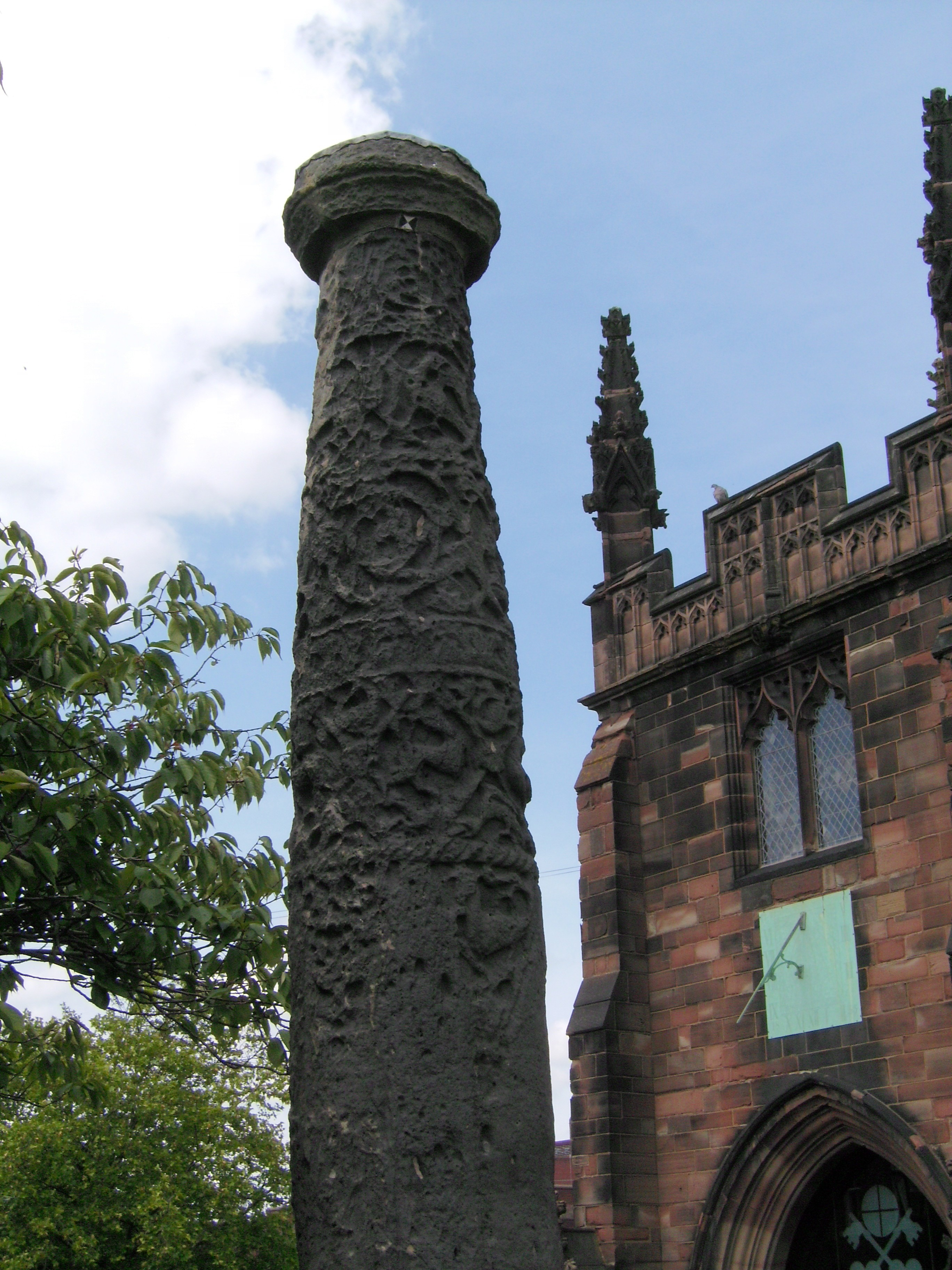 Shaft of Anglo-Saxon cross, perhaps carved in 9th century. St. Peter's Collegiate church, Wolverhampton, West Midlands, England. Parish of Central Wolverhampton WV1 1TS.